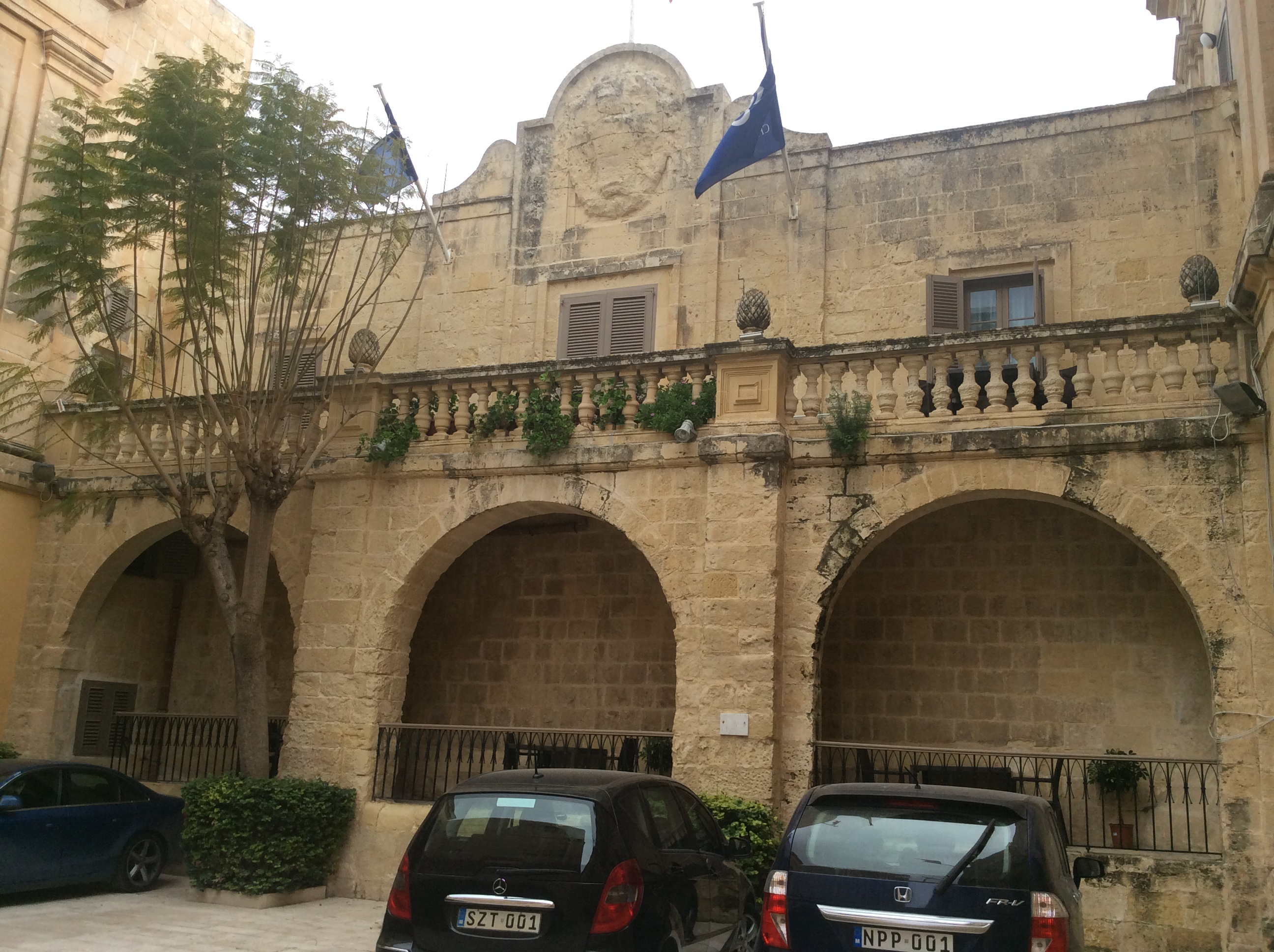 Herald's Loggia This media is about Maltese cultural property with inventory number 01196.